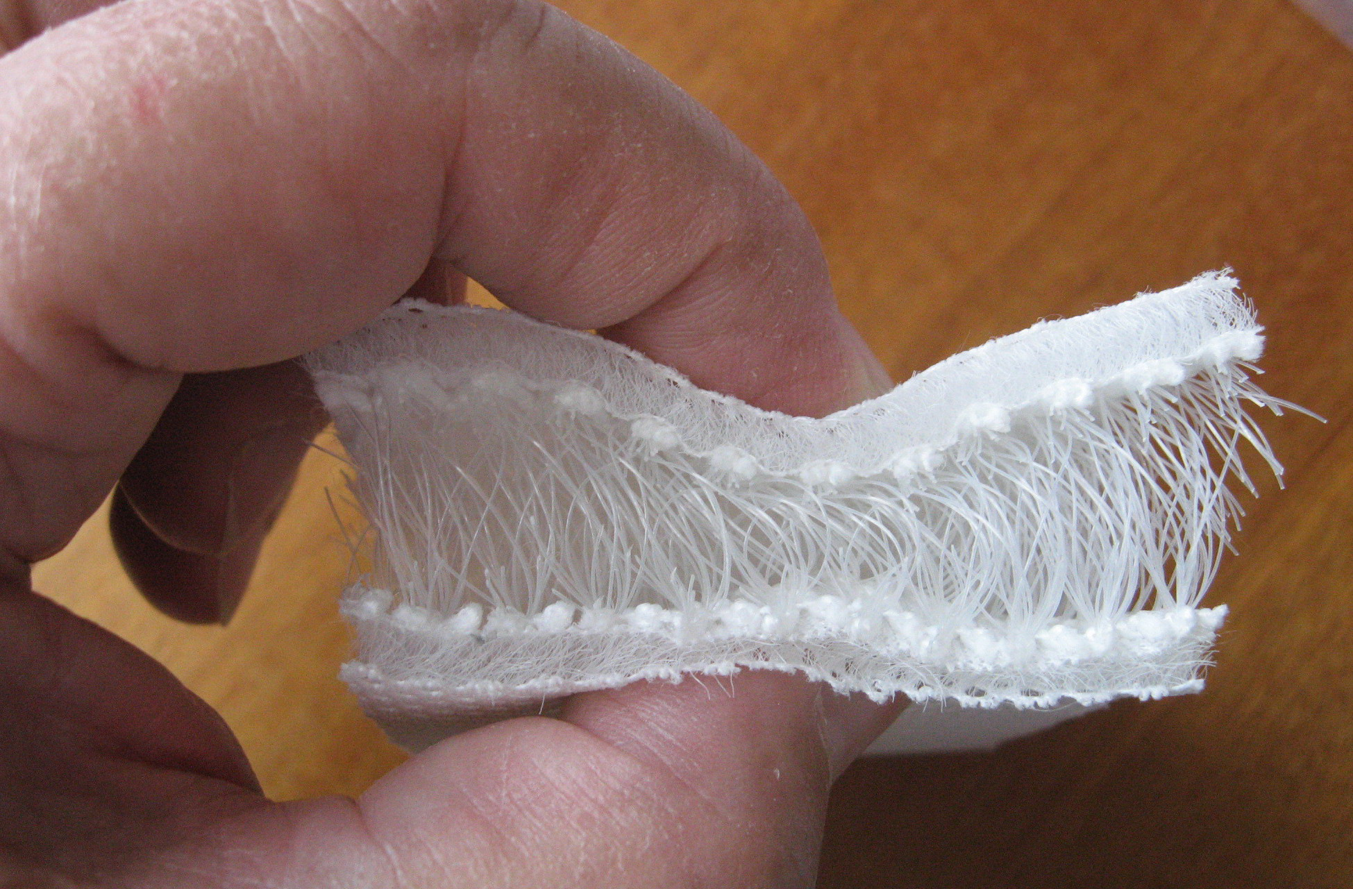 Spacer fabric. It is springly compressable.